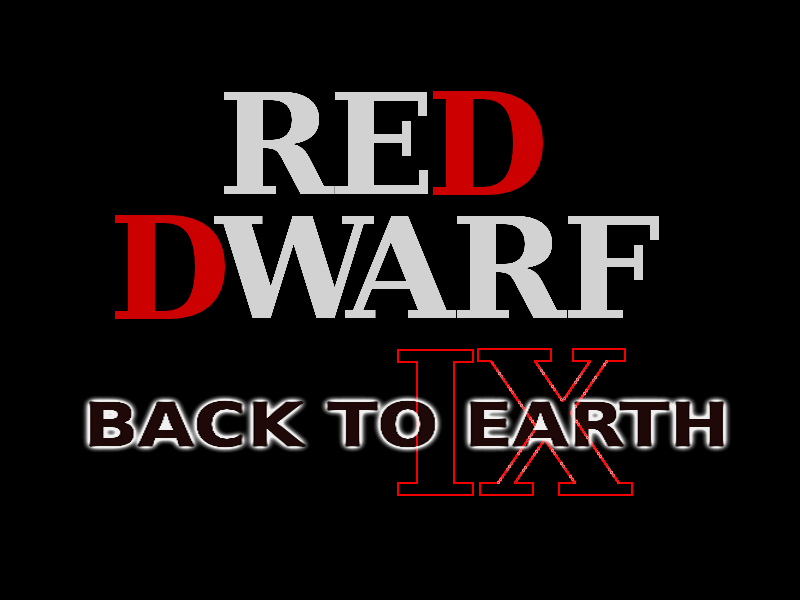 Simplified version of the Red Dwarf TV series logo, made with a public domain font, and with any copyrightable graphical elements removed.